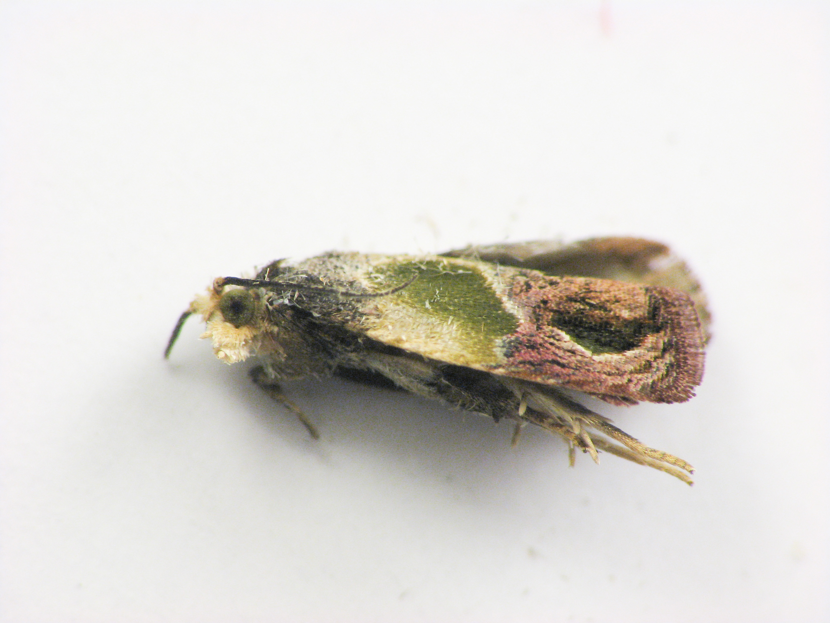 Leaf roller moth Eumarozia malachitana (Sculptured Moth - Hodges#2749). Size: ~ 7 mm. Rancocas Nature Center NJAS, Burlington County, New Jersey, USA.